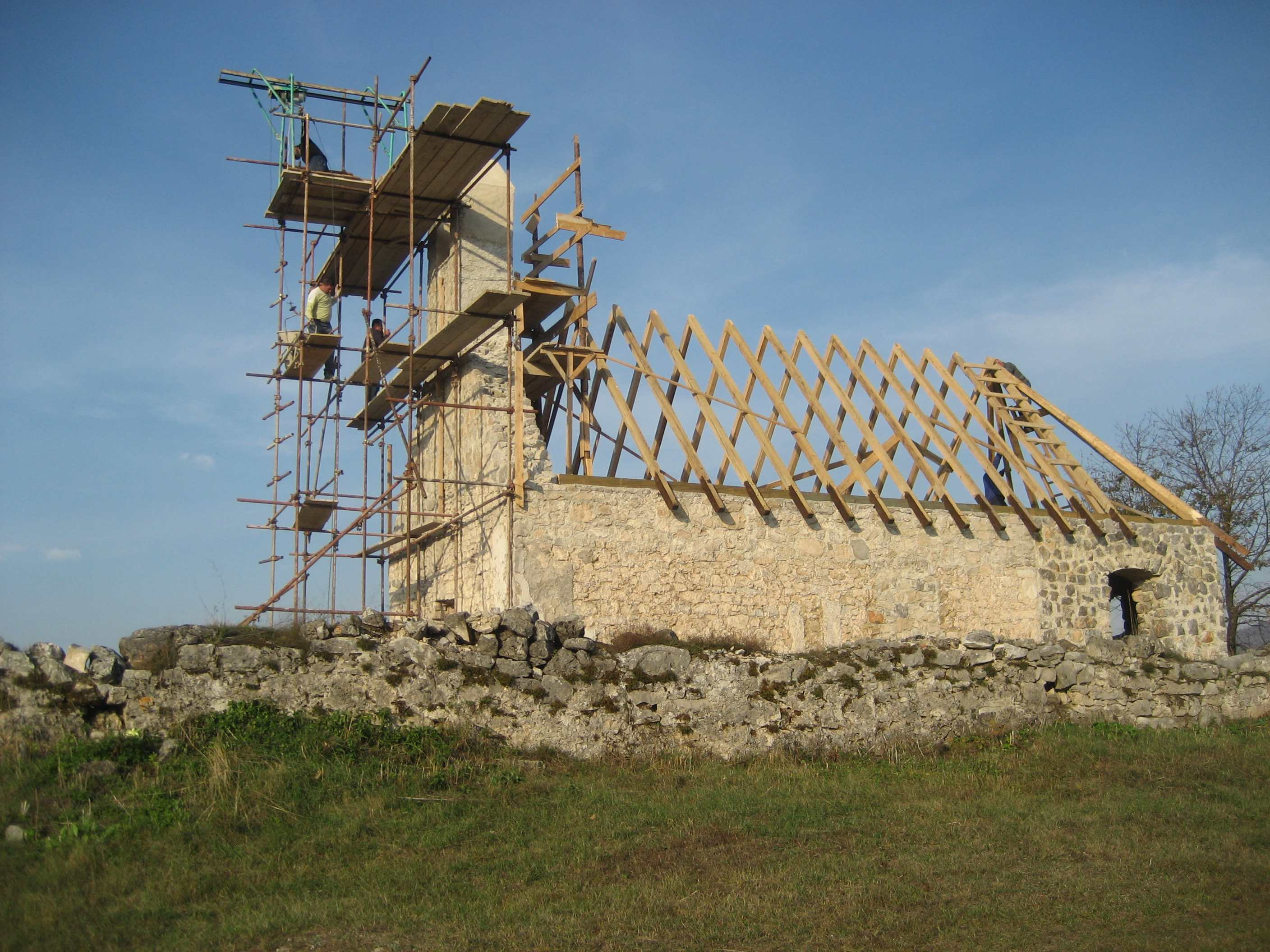 Reconstruction of the chapel in Saborsko